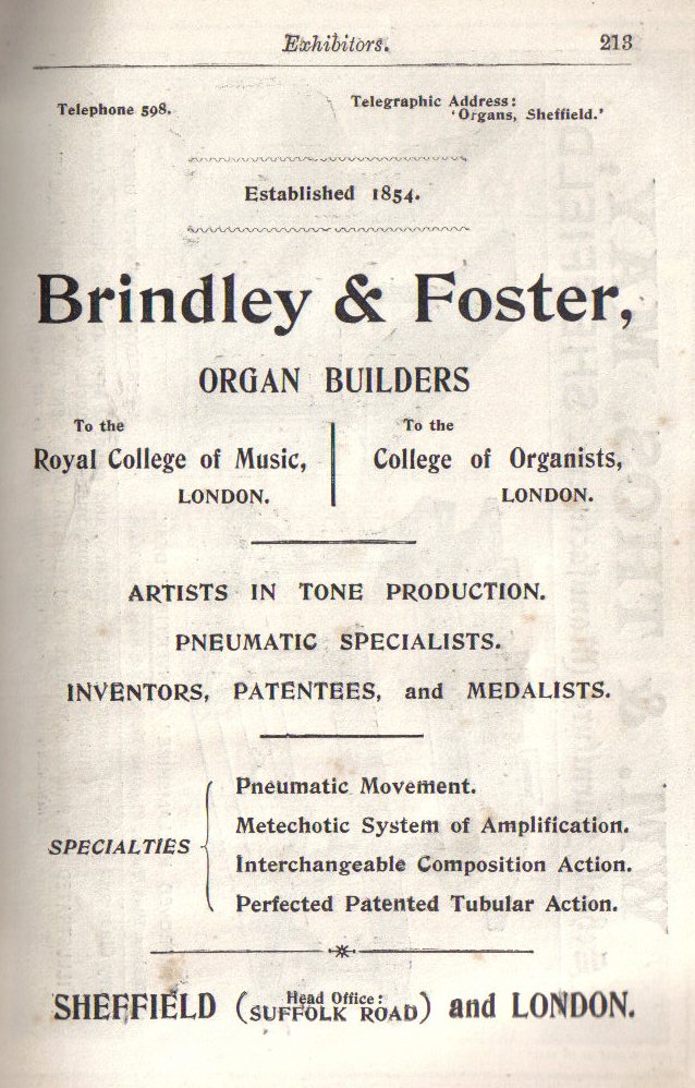 Brindley & Foster, Organ Builders, Suffolk Road, Sheffield and London. From the Illustrated Guide to the Church Congress 1897